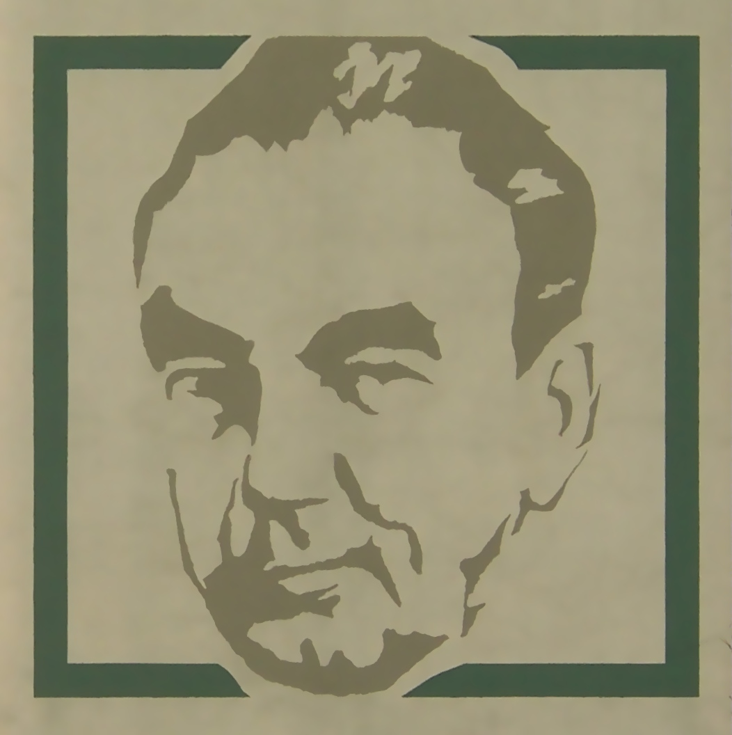 German author Erich Kästner